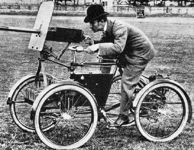 GB Armored Powered Quadracycle June 1899. Bugaga Flickr data on 2011-08-13 Tags: Old picture, Quadracycle, Public Domain License: CC BY-SA 2.0 User: paukrus Ruslan